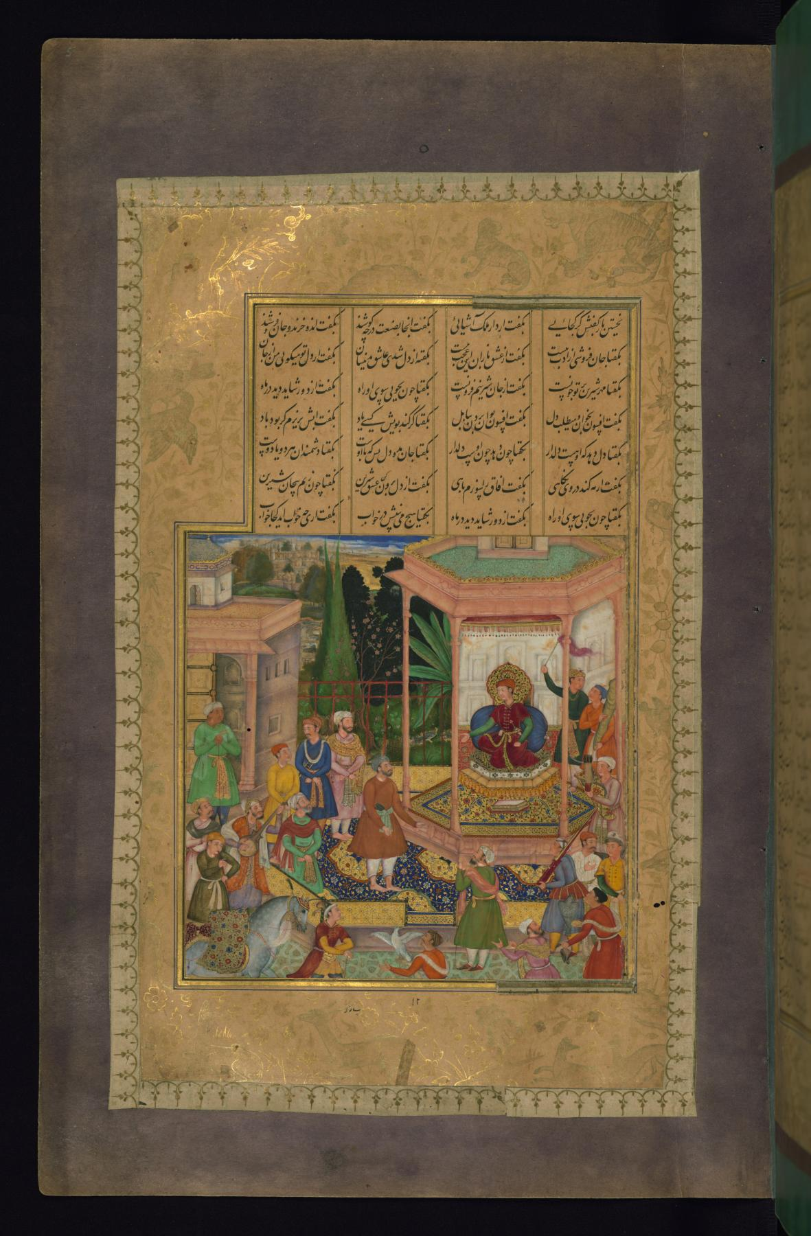 This illustration from Walters manuscript W.613 is by Sanvlah, and depicts Farhad before Khusraw.